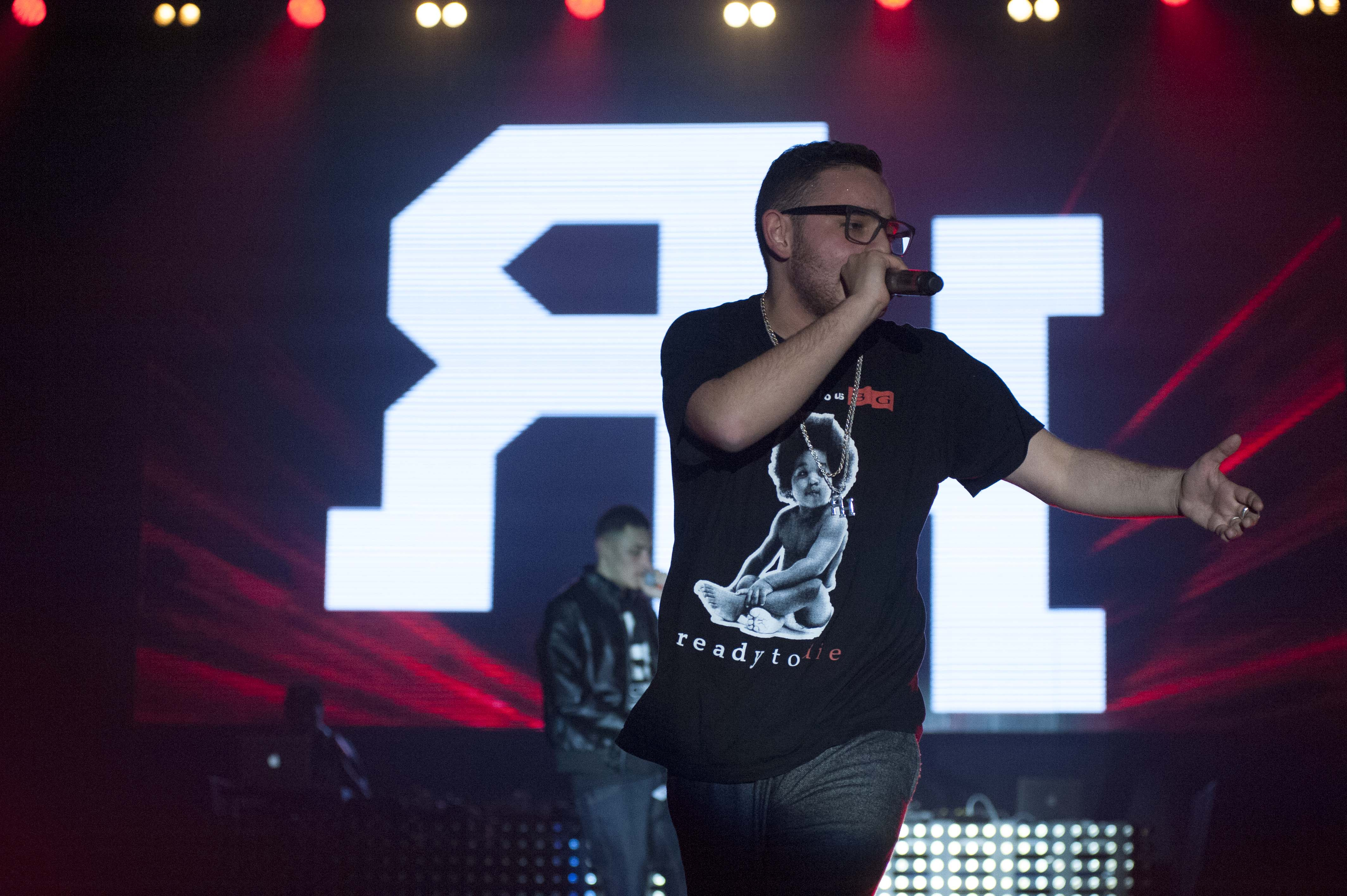 Italian rapper Rocco Hunt performs in Milan